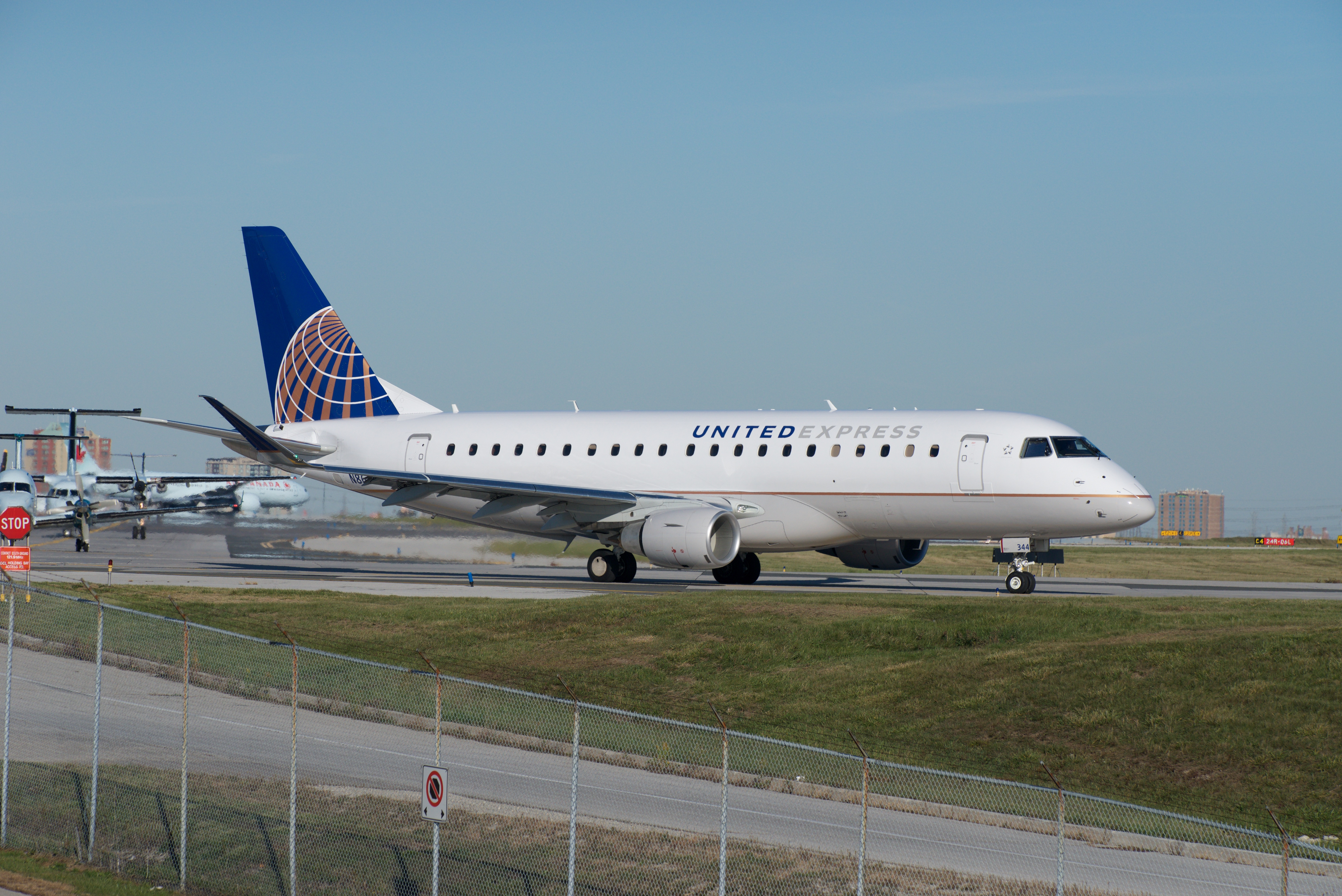 Lining up for departure, YYZ